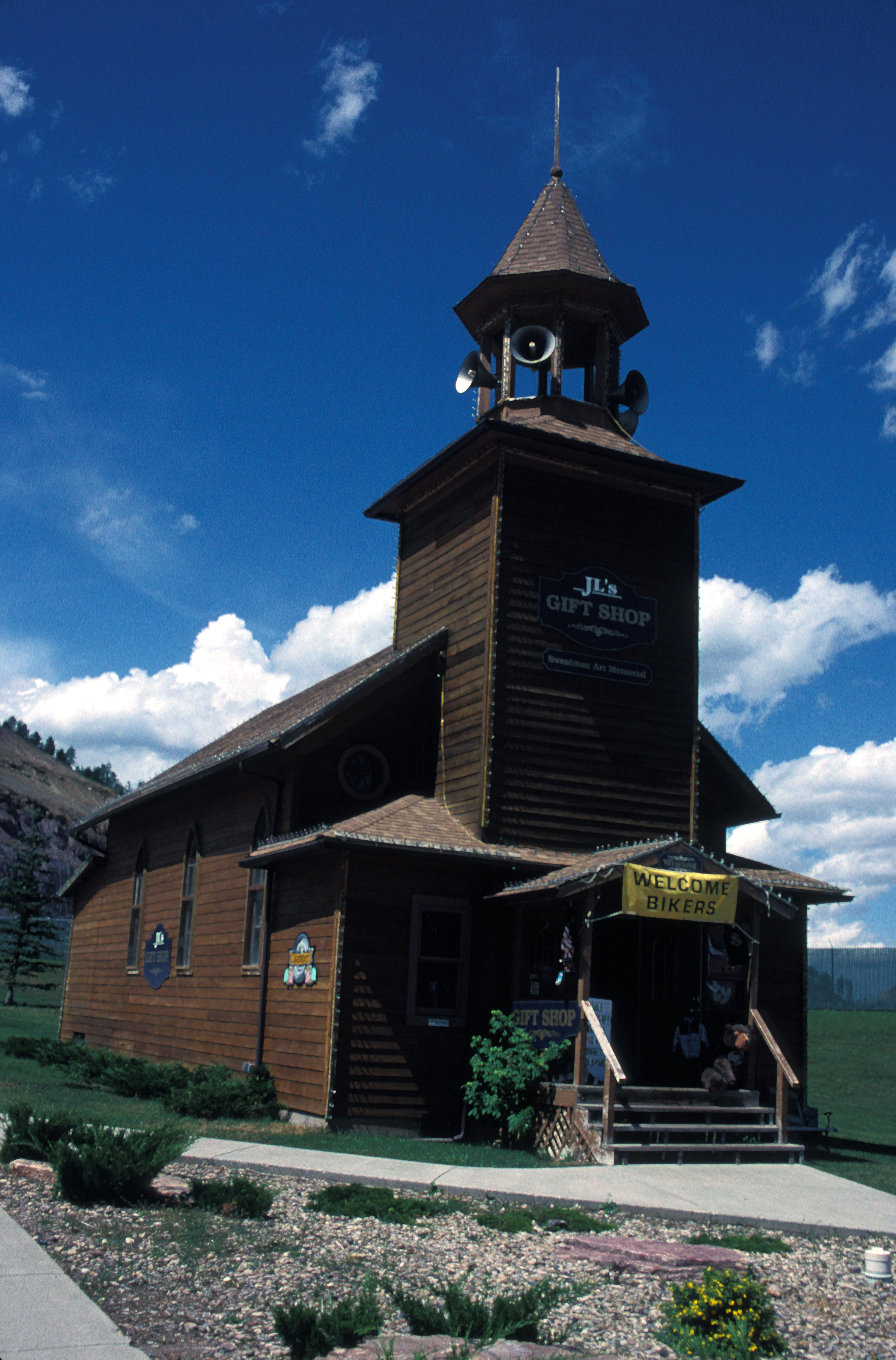 BUILT 1891 BY JOHN SAARI AND JOHN NEIMI; ONLY FINNISH LEFT IN LEAD COMMEMORATING FINNISH IMMIGRANTS